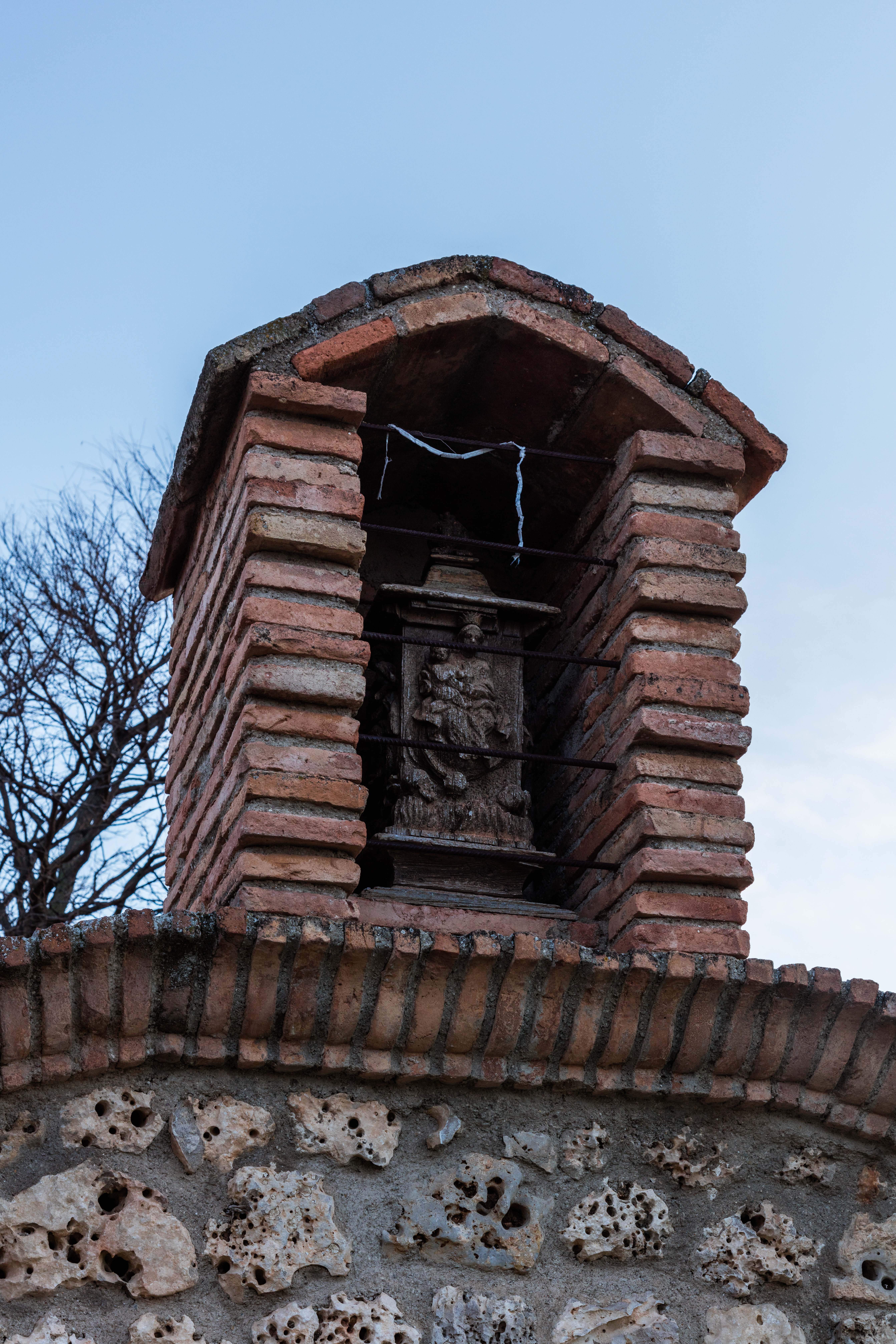 Wayside cross of the Virgin of Carmen, Villafeliche, Zaragoza, Spain